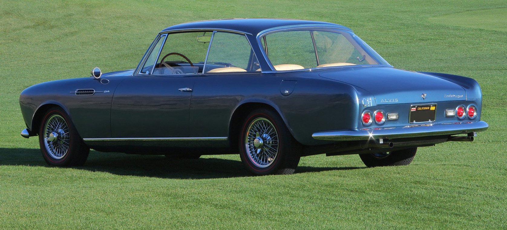 Alvis Super Coupé by Graber, at the Third Annual Desert Classic Concours d'Elegance, Feb 28 2010. Chassis number 27474, this is the last Graber-bodied coupé Alvis. Still with the family of the original owner in California.